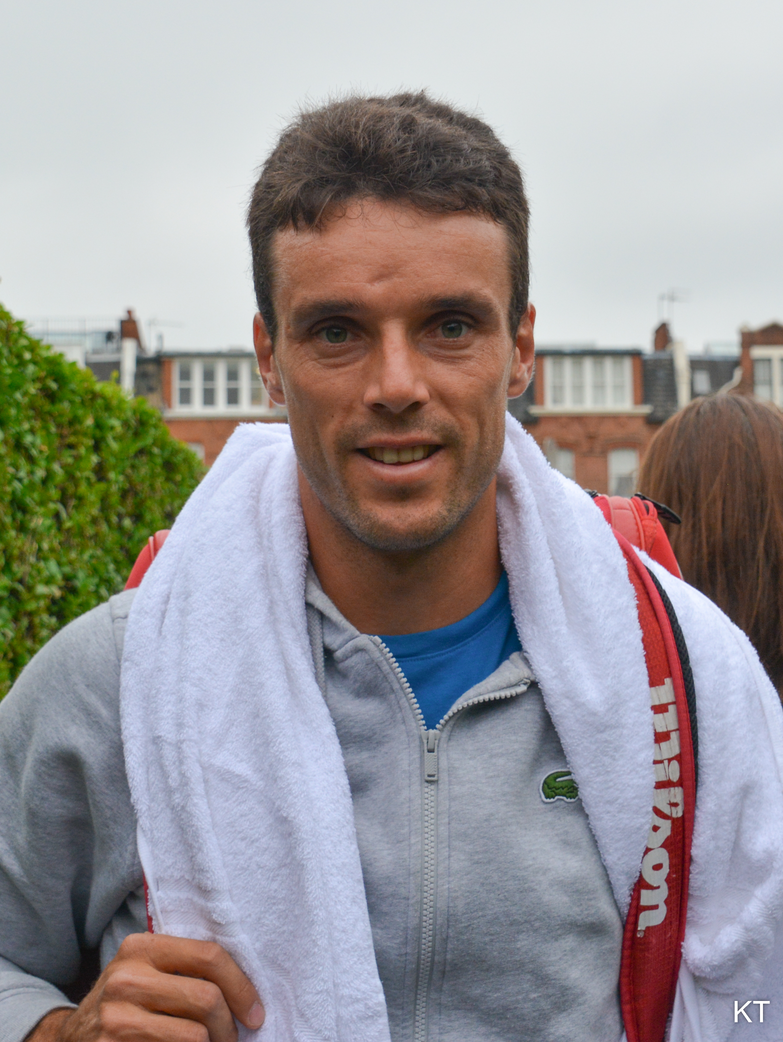 Aegon Championships, Queen's club, June 2015.